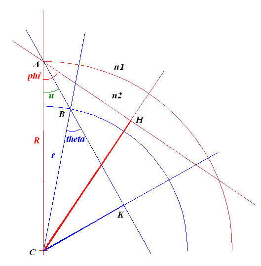 Derivation of the Optical Invariant